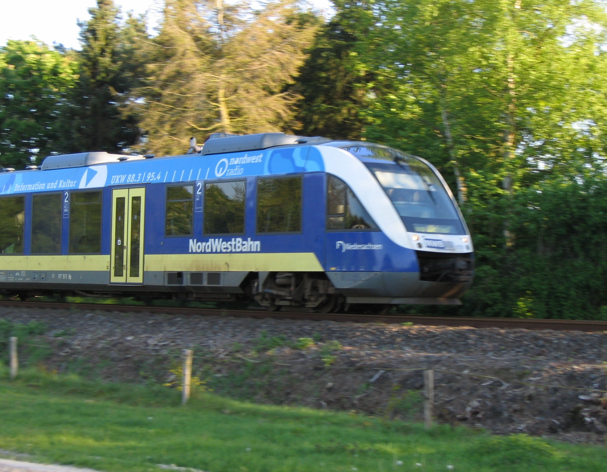 A train of the NordWestBahn on its way to Esens shortly after leaving Schortens.